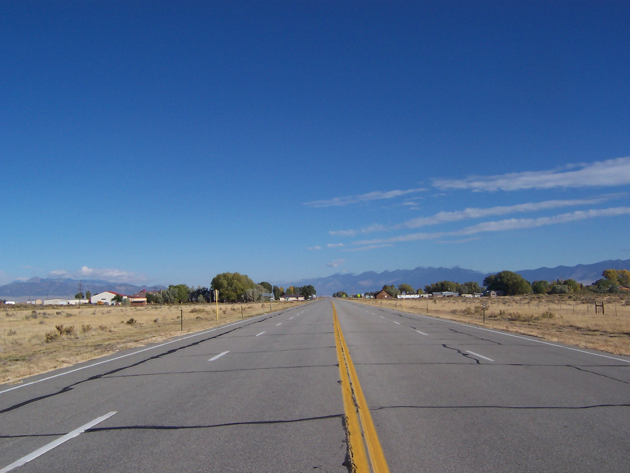 Looking north on Colorado State Highway 17 towards Moffat. About 9 AM October 5, 2010.